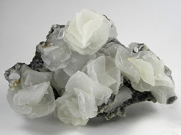 Calcite, Dolomite, Gypsum Locality: Cavnic (Kapnic; Kapnik), Maramures County, Romania (Locality at ) Size: 14.2 x 9.2 x 5.8 cm. A LARGE and stunning specimen from Eastern Europe out of the collection of Dave Stoudt, featuring highly distorted rhombohedrons of calcite that appear almost as books of petals, piled up 3-dimensionally on the matrix.